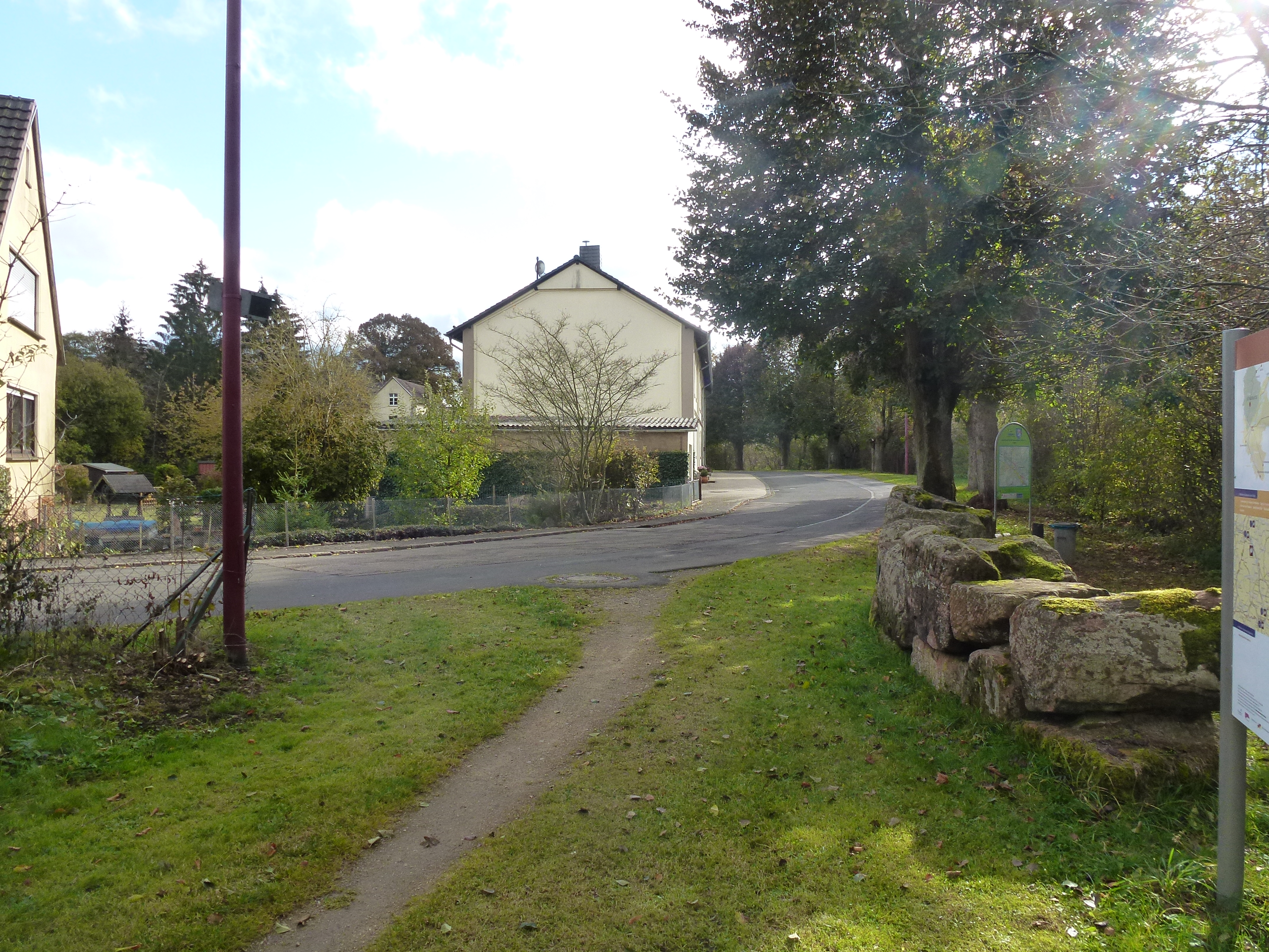 Current situation south east corner former roman vicus Igorigium in todays Jünkerath